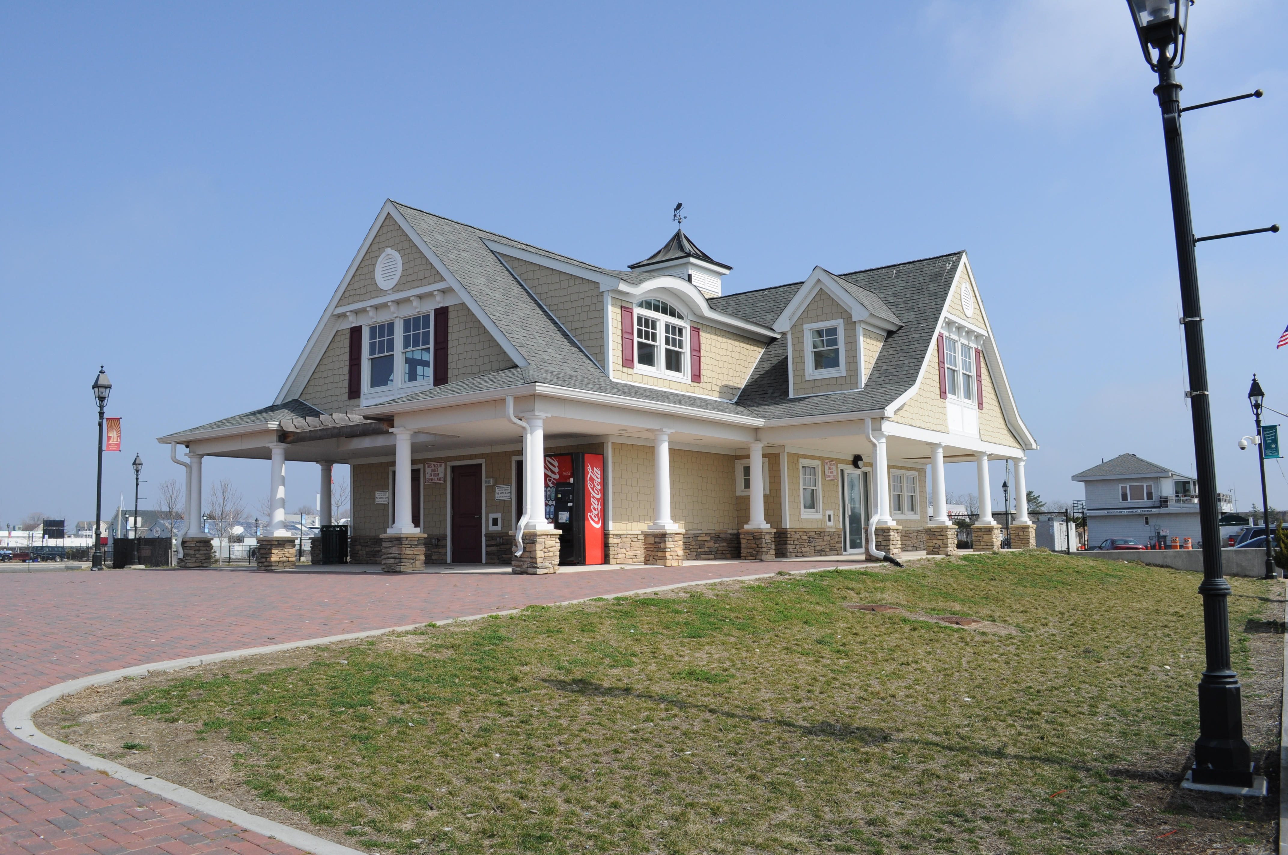 Sea Breeze Park near the foot of Woodcleft Avenue, Freeport, Long Island, New York.